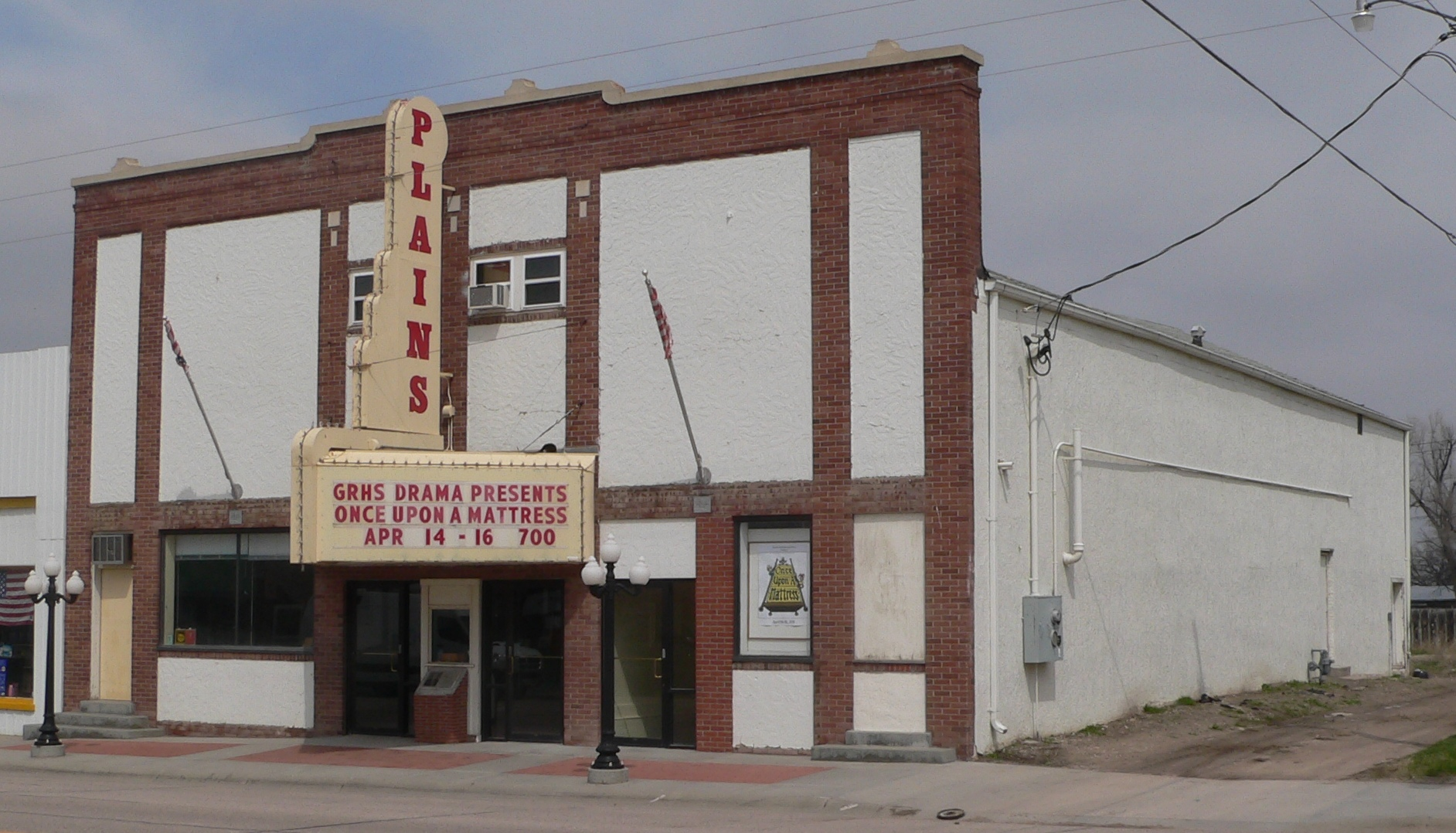 Plains Theater in Rushville, Nebraska: seen from the southeast.